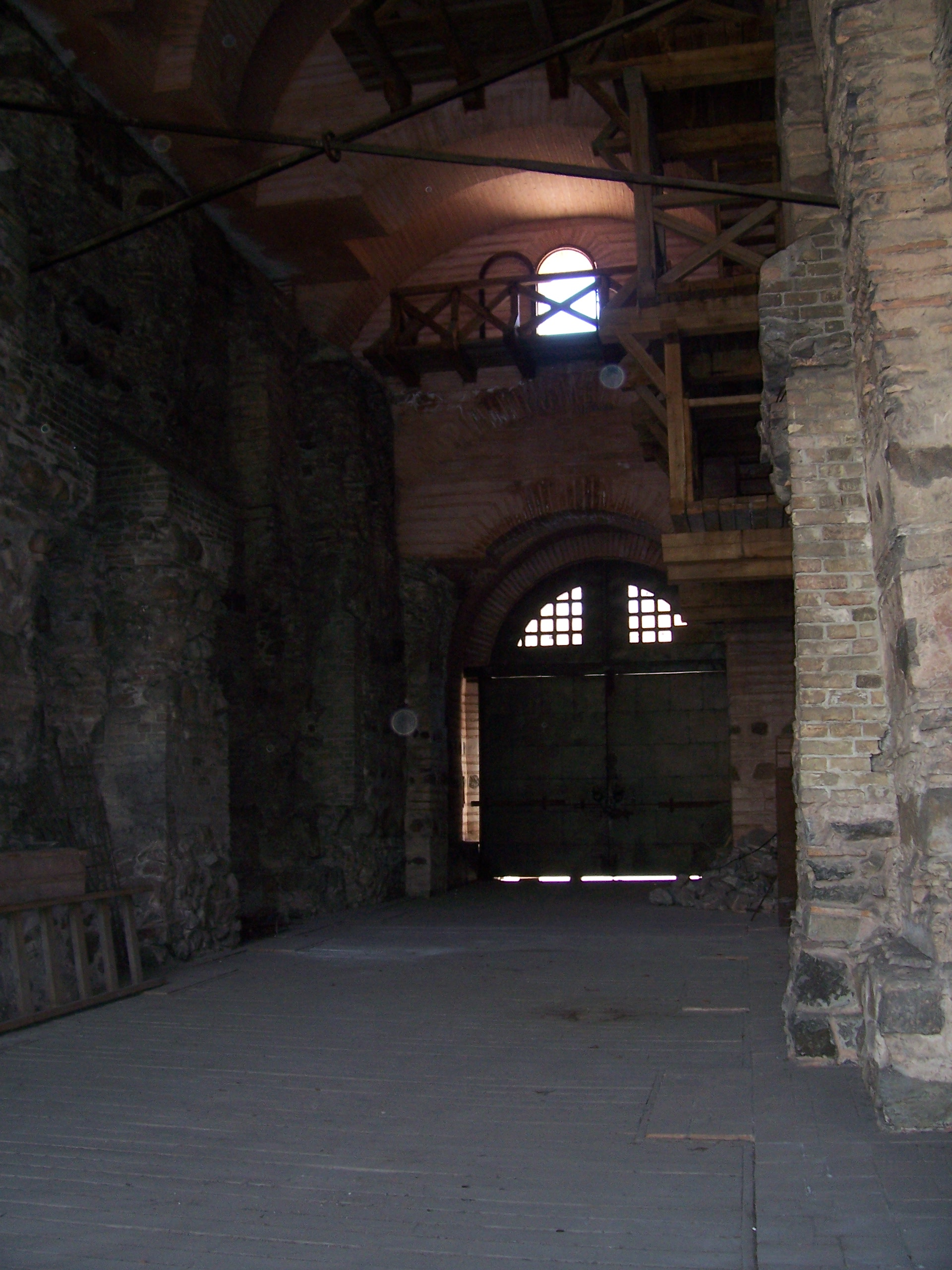 View inside the Zoloti Vorota (Golden Gates) in Kiev.